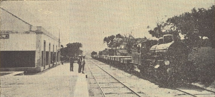 Ballast train at Cabrela Railway Station, on the Sul Railway (future Alentejo Railway), in Portugal. This photograph was published in the Gazeta dos Caminhos de Ferro magazine No. 1129, of 1st January 1935, and scanned by the Hemeroteca Municipal de Lisboa.